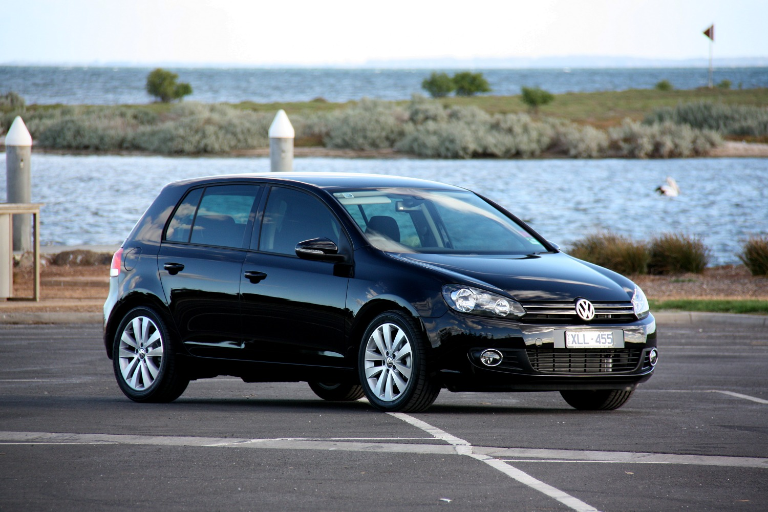 2009 Volkswagen Golf (5K) 103TDI Comfortline 5-door hatchback. Photographed in Werribee, Victoria, Australia. Vehicle registration enquiry resultsJurisdictionVictoriaRegistrationXLL455Chassis codeWVWZZZ1KZAW072140Engine codeCBA605677Compliance date2009-10Year of manufacture2009